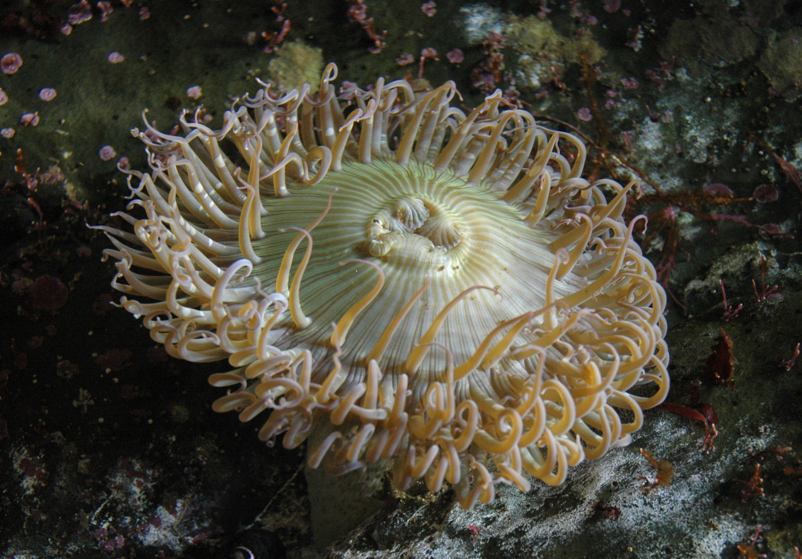 Sea anemone at the Monterey Bay Aquarium